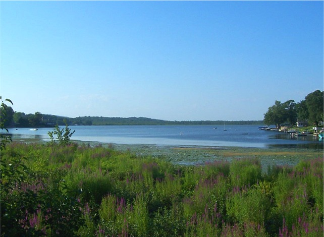 Orange Lake seen from NY 52 near southern end